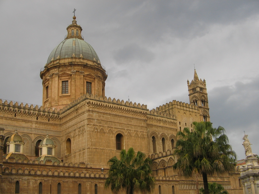 Particolare della Cattedrale di Palermo, Sicilia; A part of the Palermo Cathedral, in Palermo, Sicily, Italy; Made by Piero tasso on 27 of December, 2005